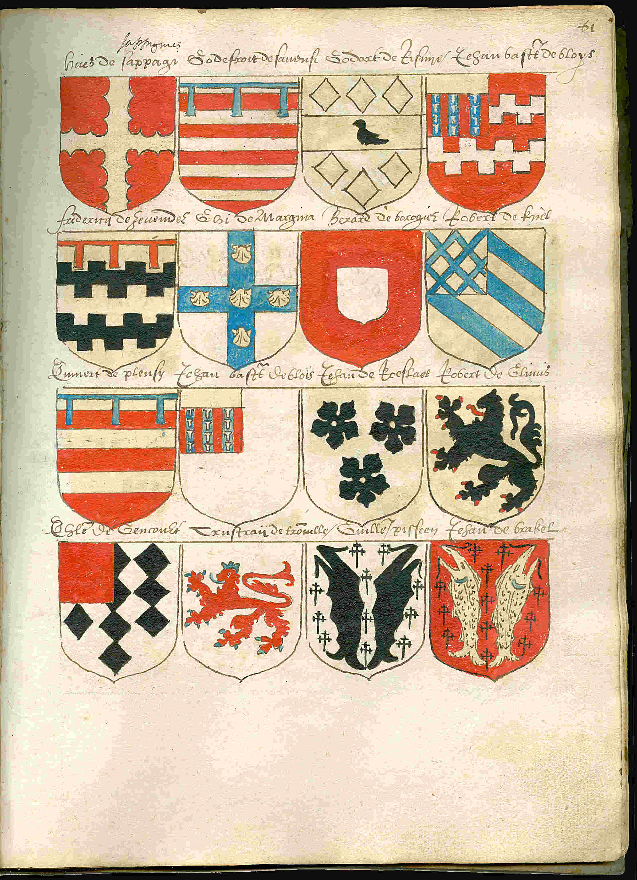 Page 61 from a copy of the Beyeren armorial / Wapenboek Beyeren from ca. 1600. The original Beyeren armorial from 1405 can be viewed at the website of the KB